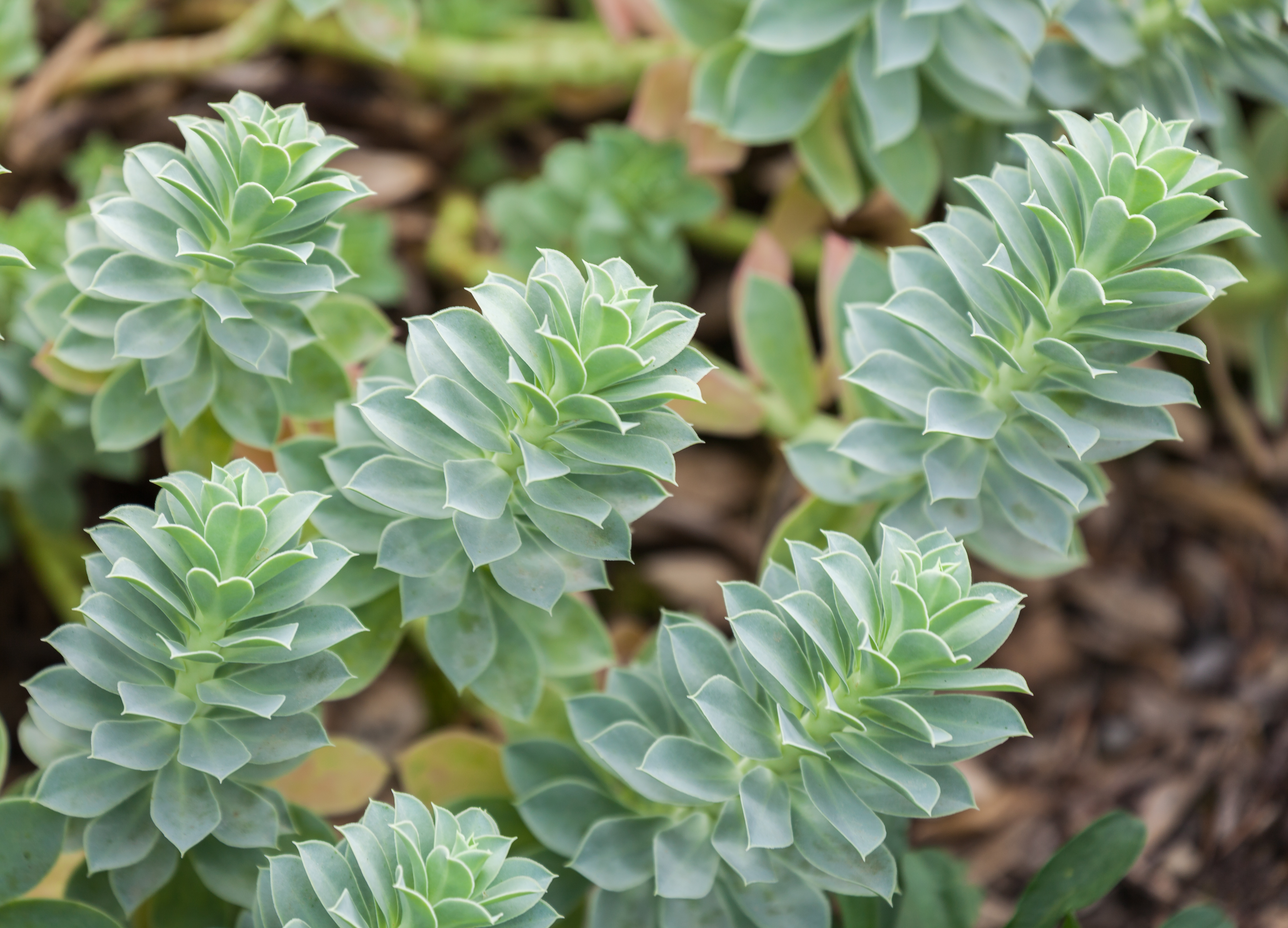 Euphorbia myrsinites, Munich Botanical Garden, Germany